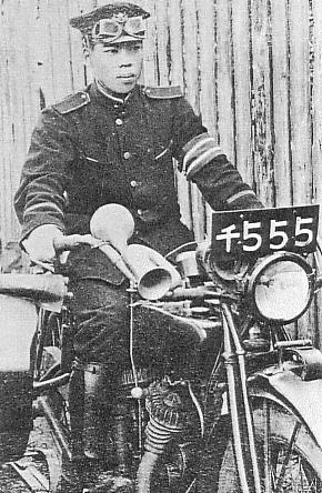 Aka-bai Taiin(Japanese motorcycle police circa 1925, literally "Red bike personnel")